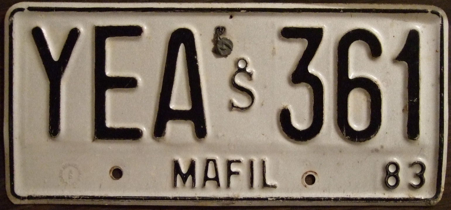 Mafil plate has a lead seal wired into the plate. This seems to be a common practice in Chile.